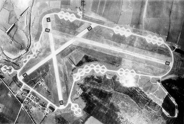 Aerial photograph of Spanhoe Airfield, Northamptonshire, England.